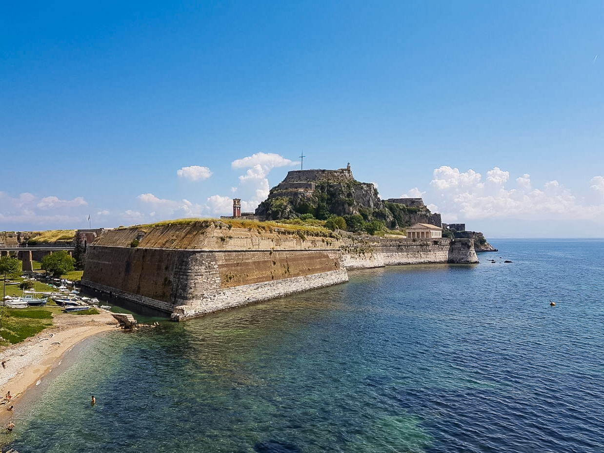 Old Venetian Fortress on Corfu island, Greece